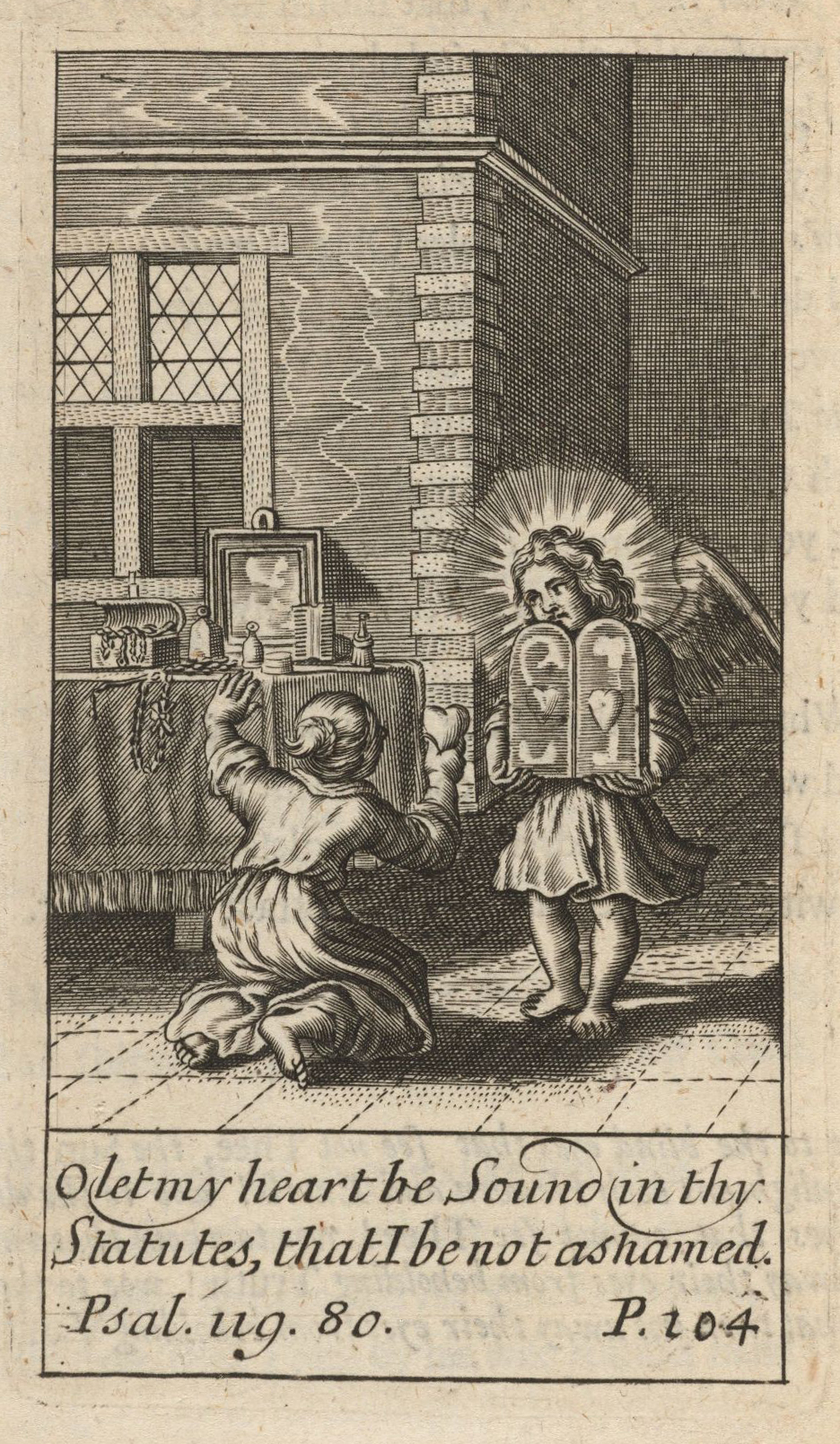 Illustration on page 104 from an English edition of Pia desideria; or, Divine addresses, London: 1690, by Herman Hugo (1588-1629), translated by Edmund Arwaker (d. 1730). *NC6 H8748 Eg686ab, Houghton Library, Harvard University